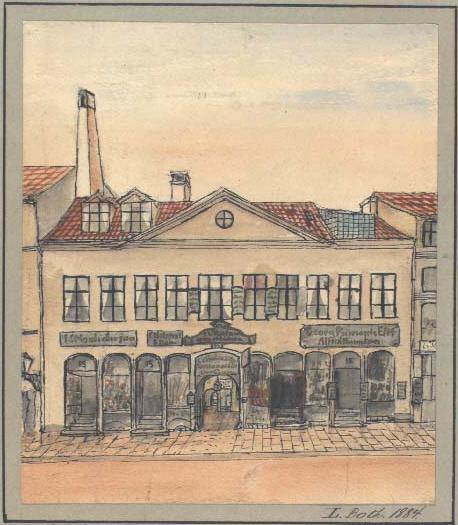 Karel van Manders house